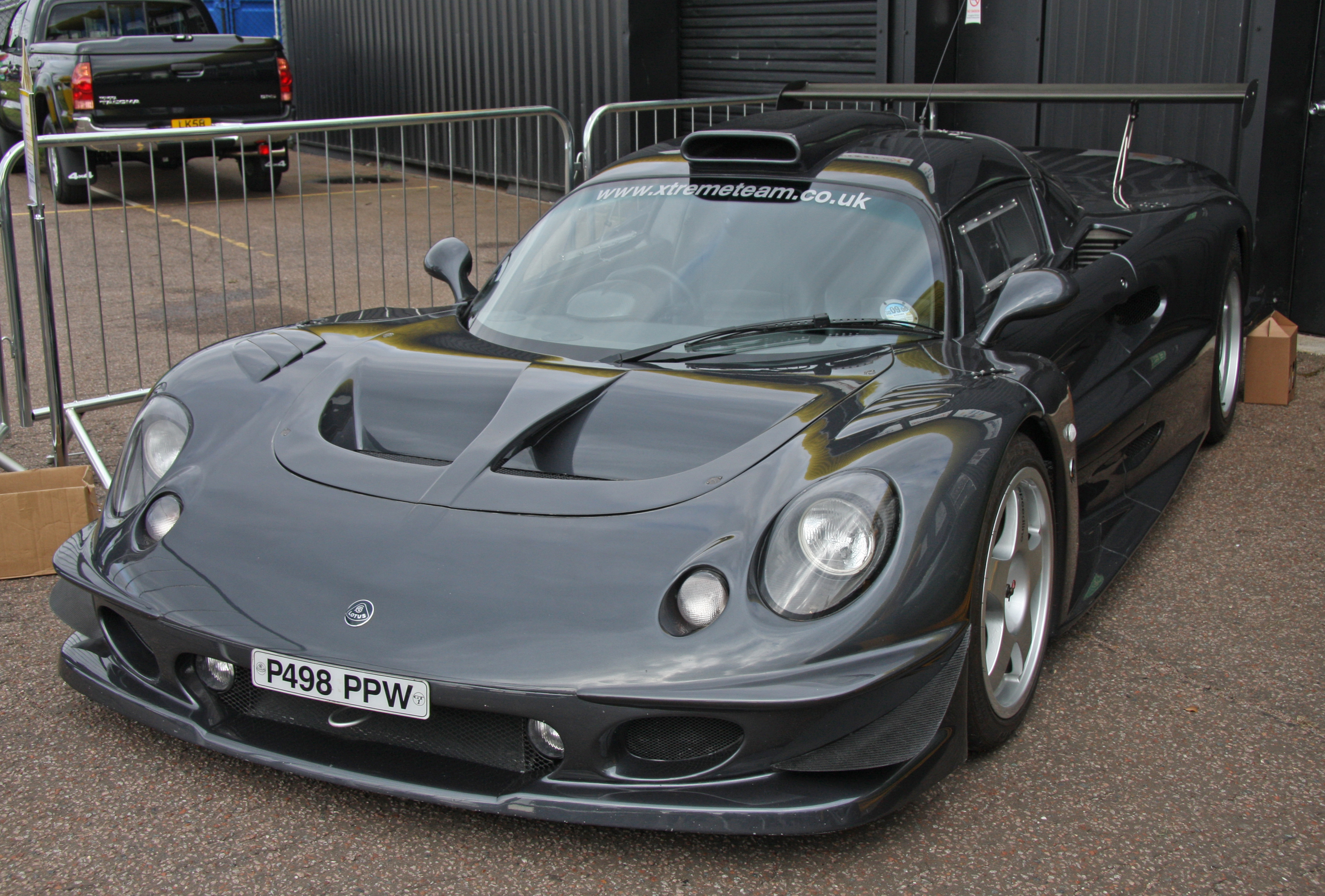 The only road legal Elise GT1 produced by Lotus Lotus 60th Celebration